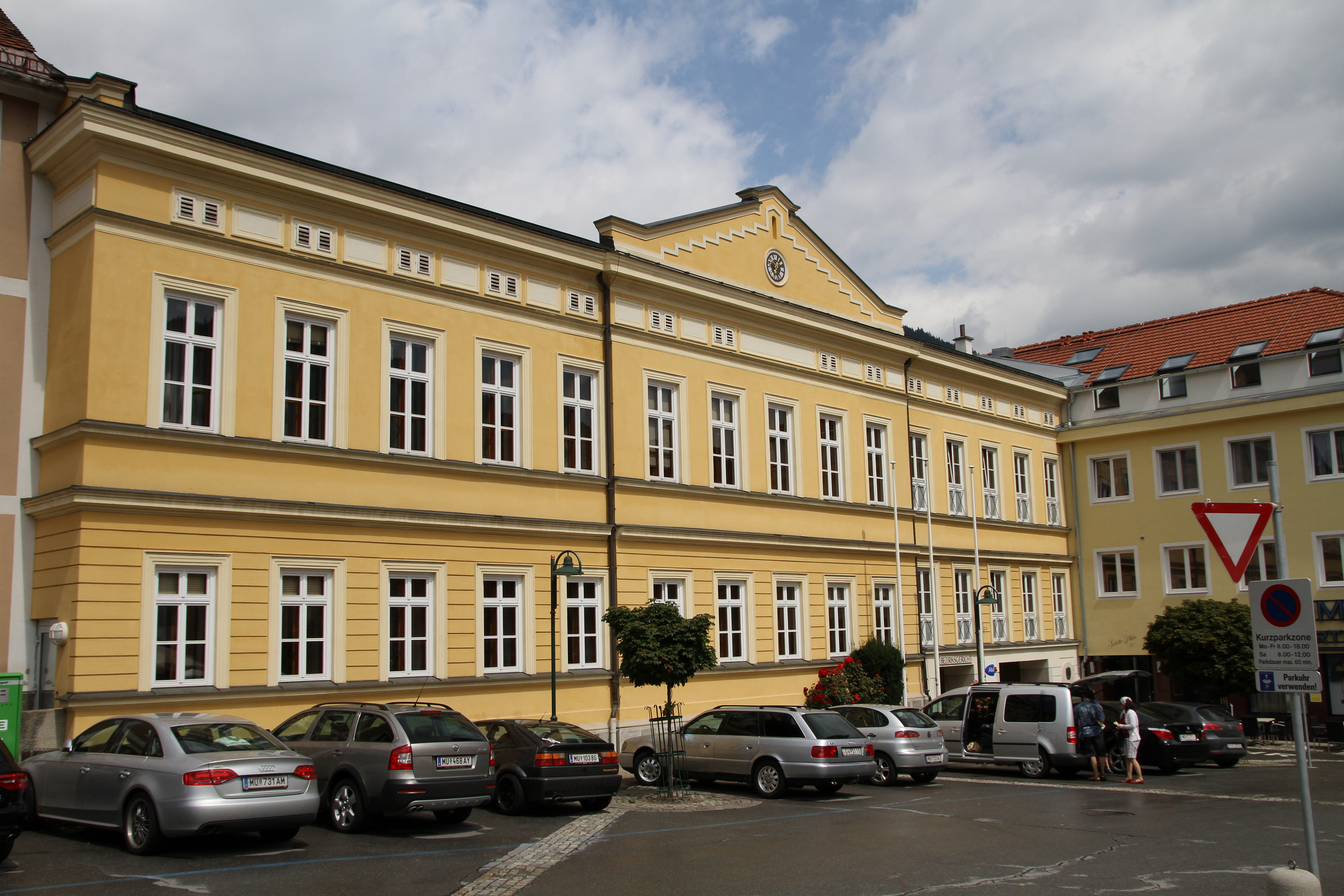 Building of the Murau district court at the Schillerplatz in Murau.